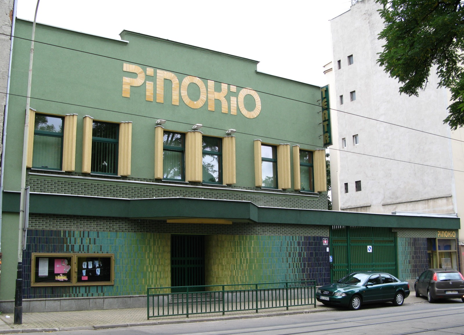 Pinokio Theatre, Łódź